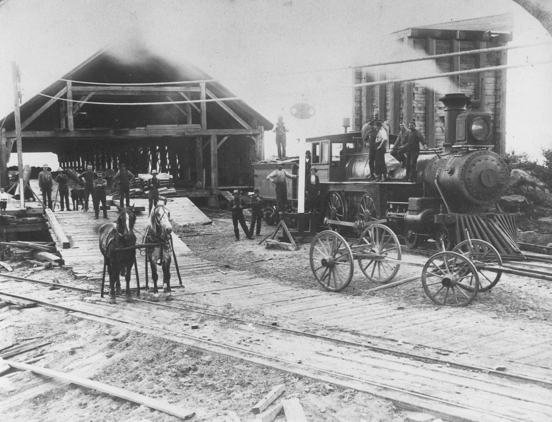 This image shows the western terminus of the Nosbonsing and Nipissing Railway at Callander Bay on Lake Nipissing. The N&N was a short line lumber portage in central Ontario, Canada, connecting Lake Nipissing to Lake Nosbonsing, where logs could then be floated on the Mattawa River to Ottawa. The line was abandoned in 1912, but the charter was reused for an entirely different line formerly known as the Egan Estates Railway, some distance to the southeast. The engine is the "J.R. Booth", named for the line's owner, and was later used on the Ottawa, Arnprior and Parry Sound Railway (OA&PS), also owned by Booth.